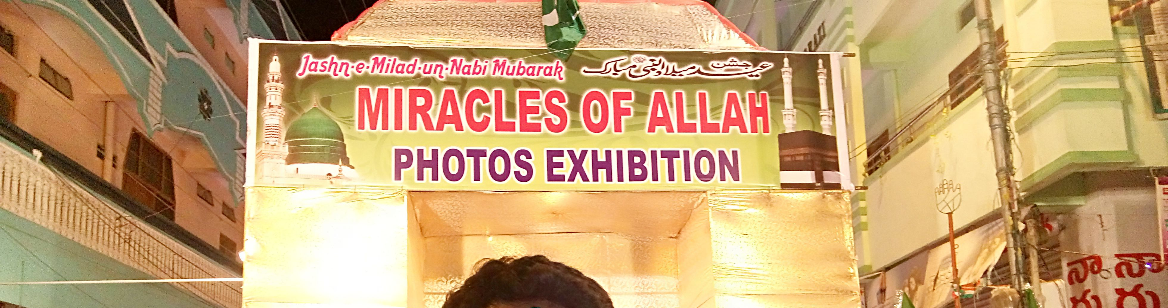 Miracles Of Allah A Photo Exhibition by Jamia MAsjid Al-Kauser